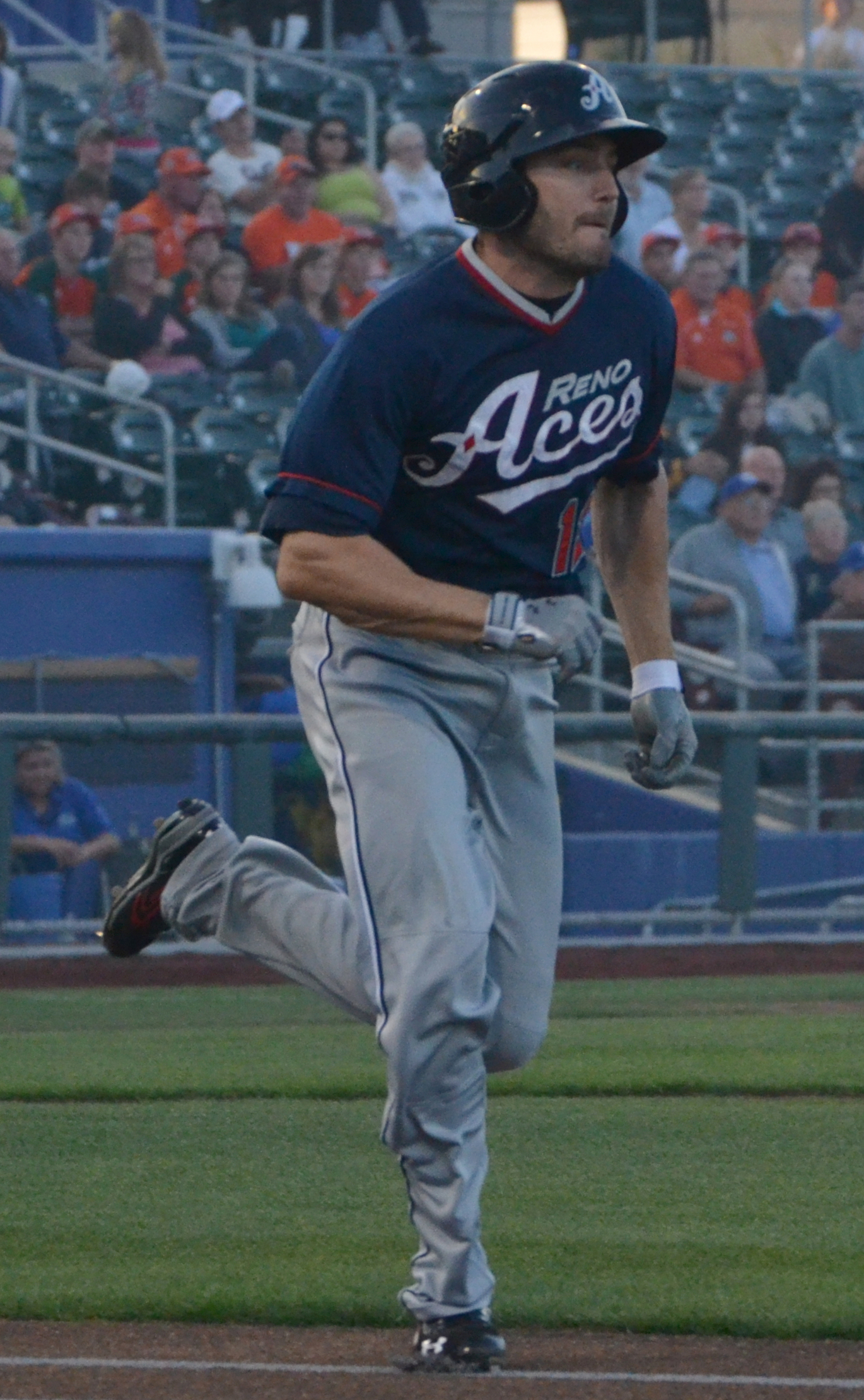 A. J. Pollock